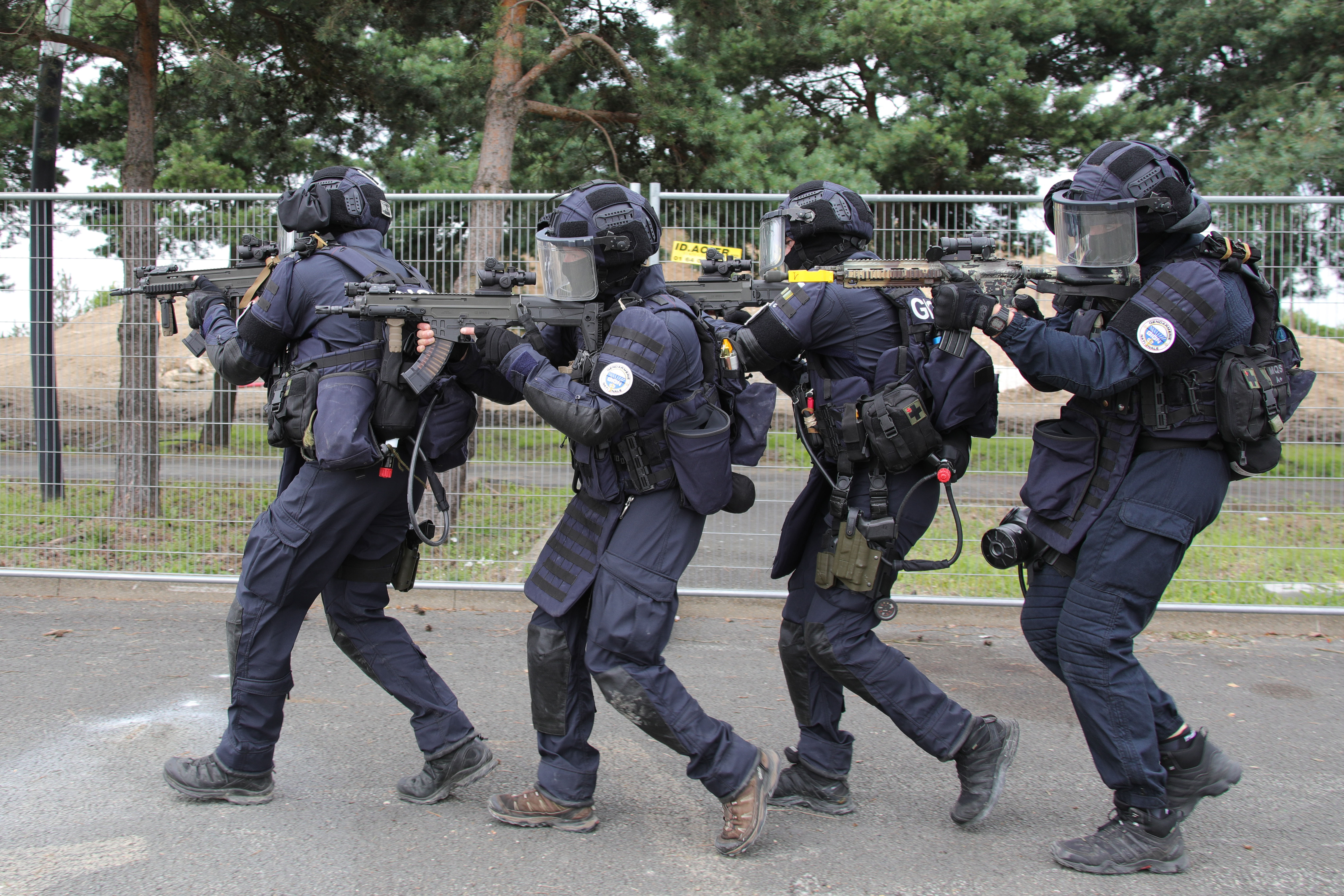 GIGN operators during a demo-2. June 2018